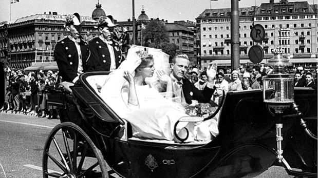 Princess Birgitta of Sverige and her husband Johan Georg von Hohenzollern passing Skeppsbron after the wedding ceremony.